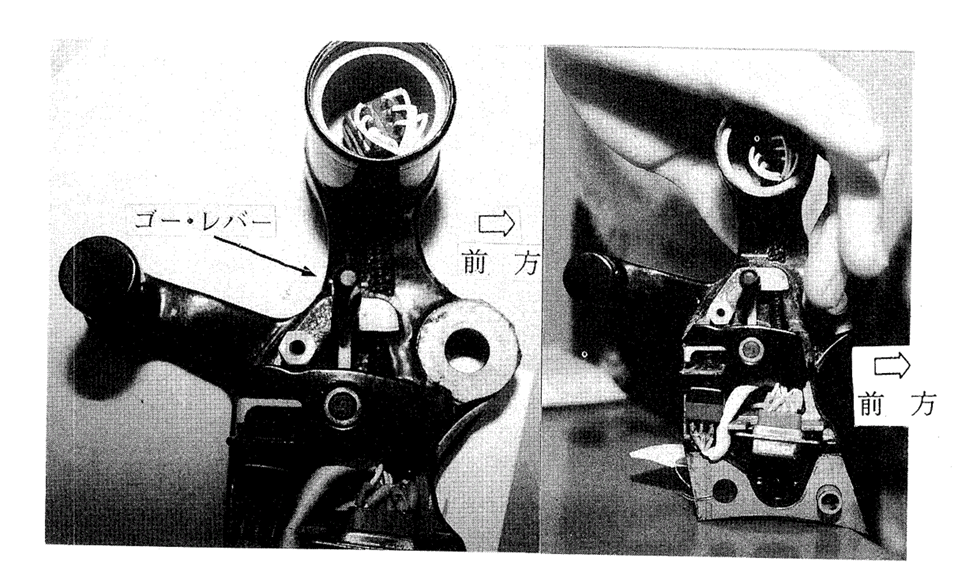 Flight 140 ultimately stalled and crashed into the ground, killing 264 of the 271 people on board.